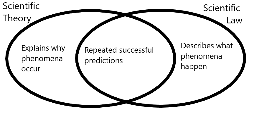 Attempts to describe the difference between scientific laws and scientific theories